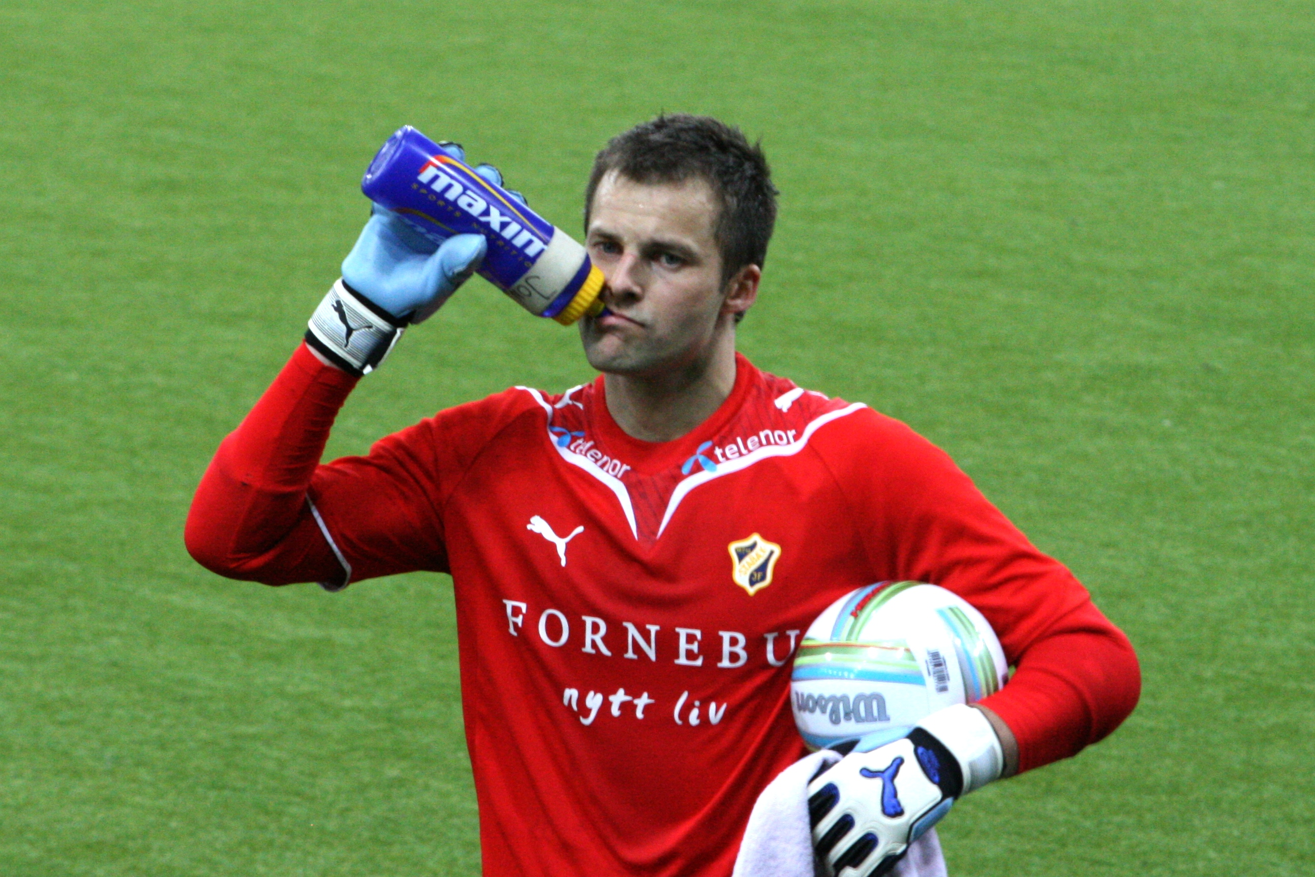 Norwegian footballer Jon Knudsen.